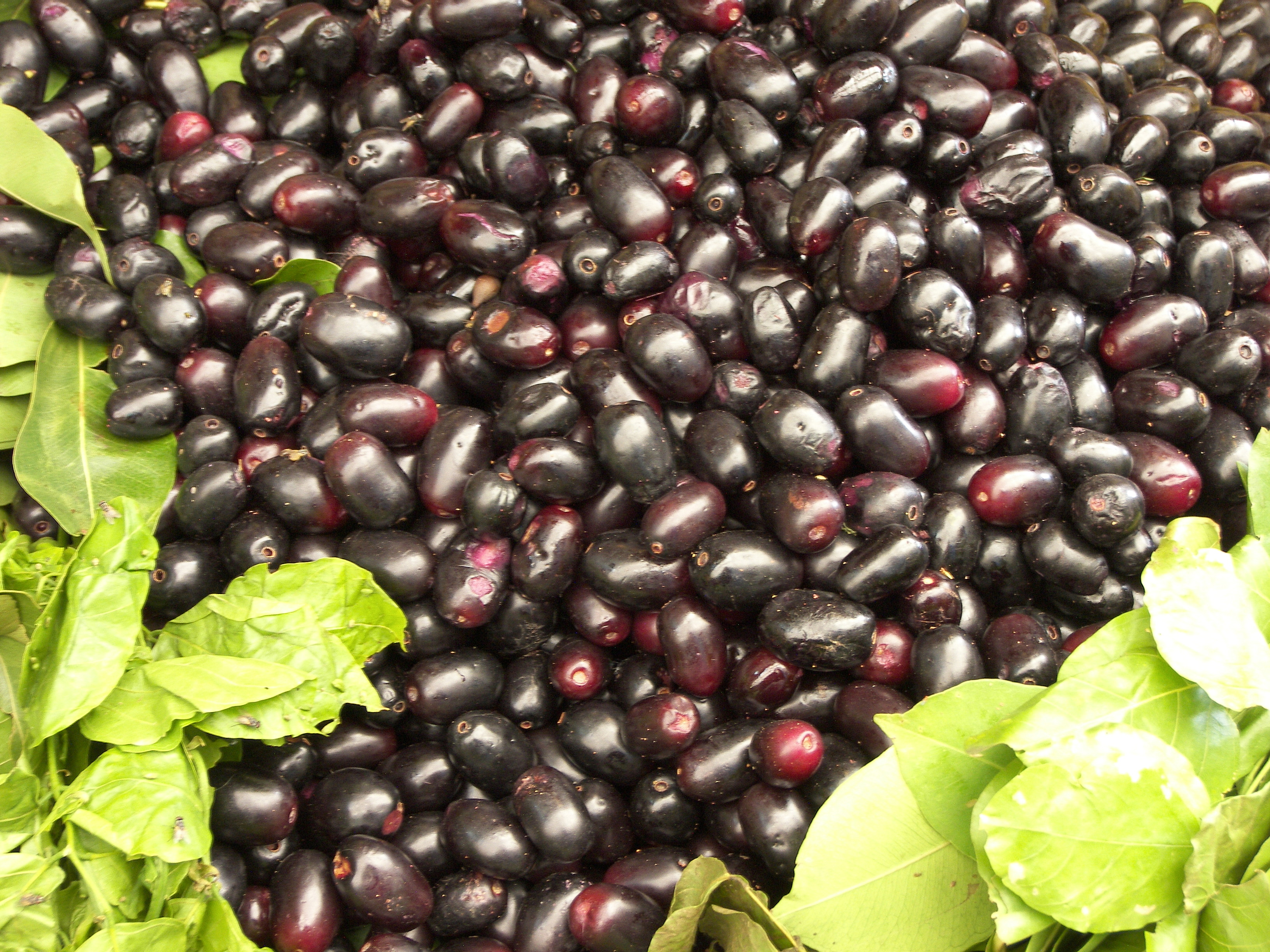 Rajesh Dangi, Bangalore, HAL market, Jun 2007, "Ripe Jamun fruits"